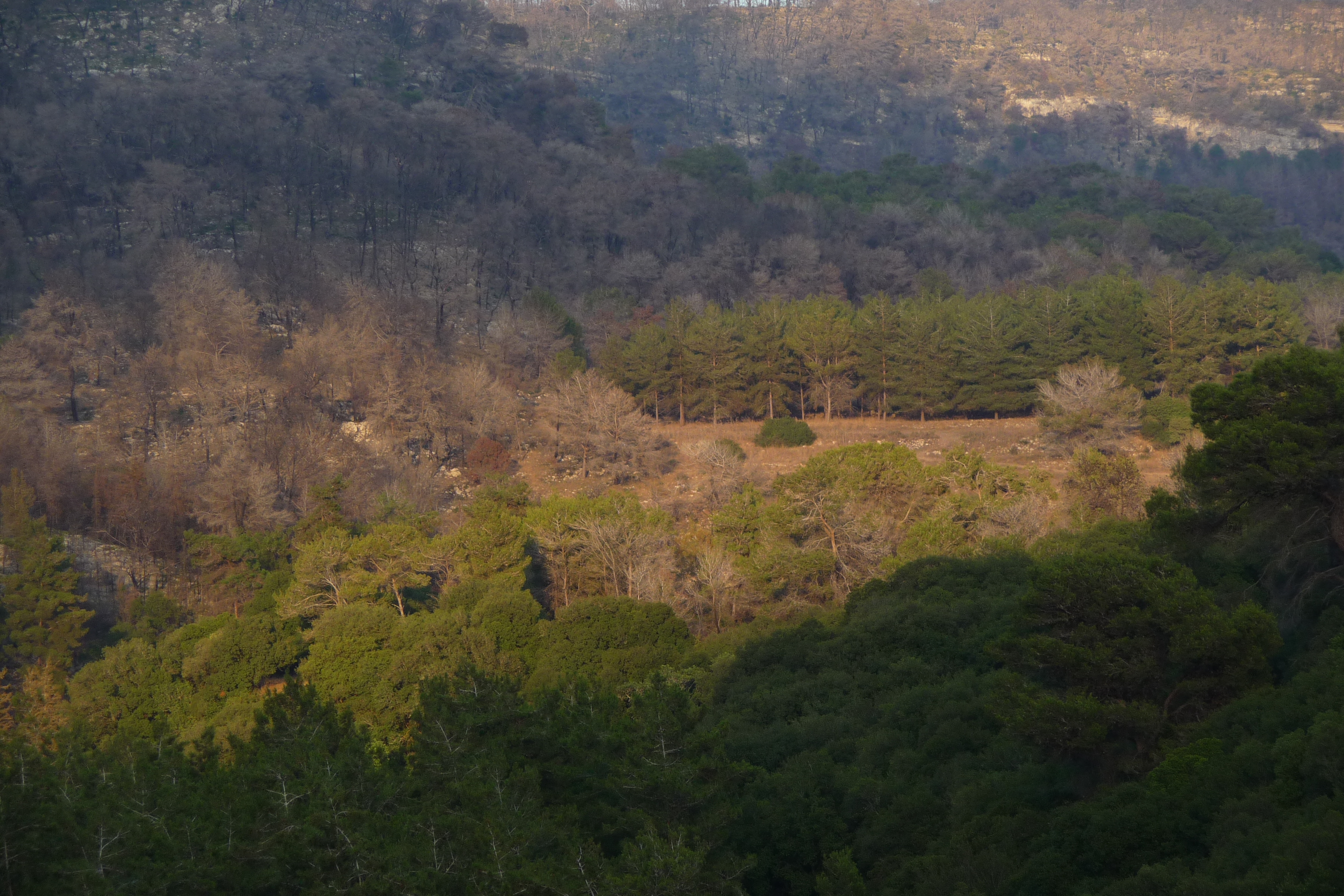 Mount Carmel